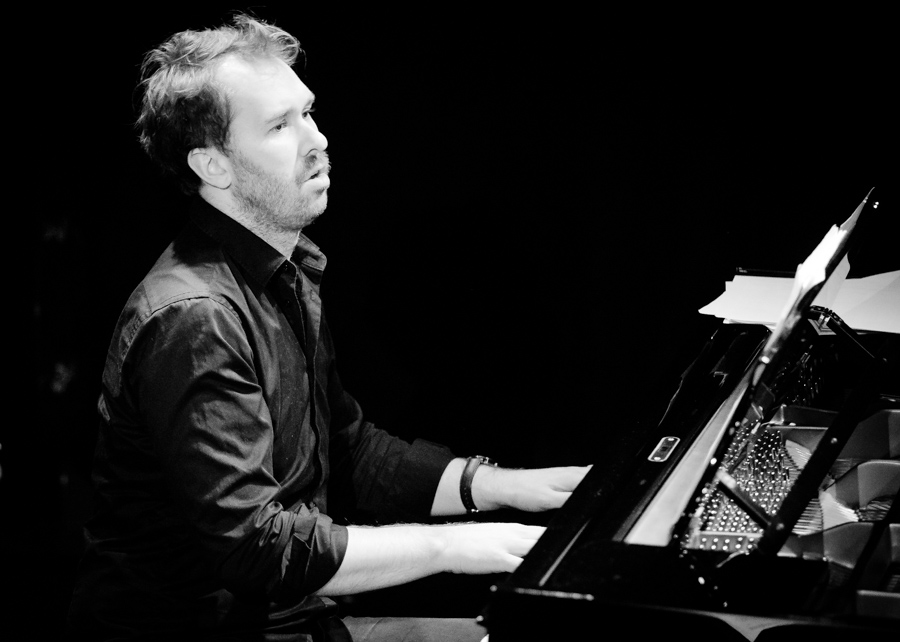 Daniel Herskedal at Victoria Teater. The concert took place on 07. December 2017 in Oslo. Lineup:Daniel Herskedal (tuba and trumpet)Eyolf Dale (piano)Helge Andreas Norbakken (percussion)Bergmund Waal Skaslien (viola)John Ehde (cello)